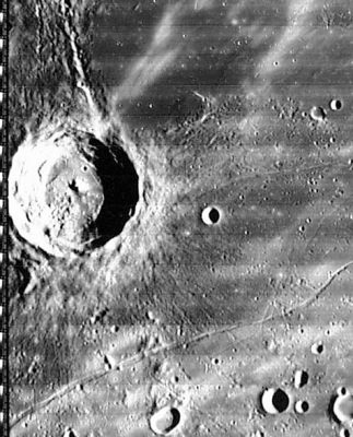 Cardanus lunar crater - Lunar Orbiter IV 169-H2